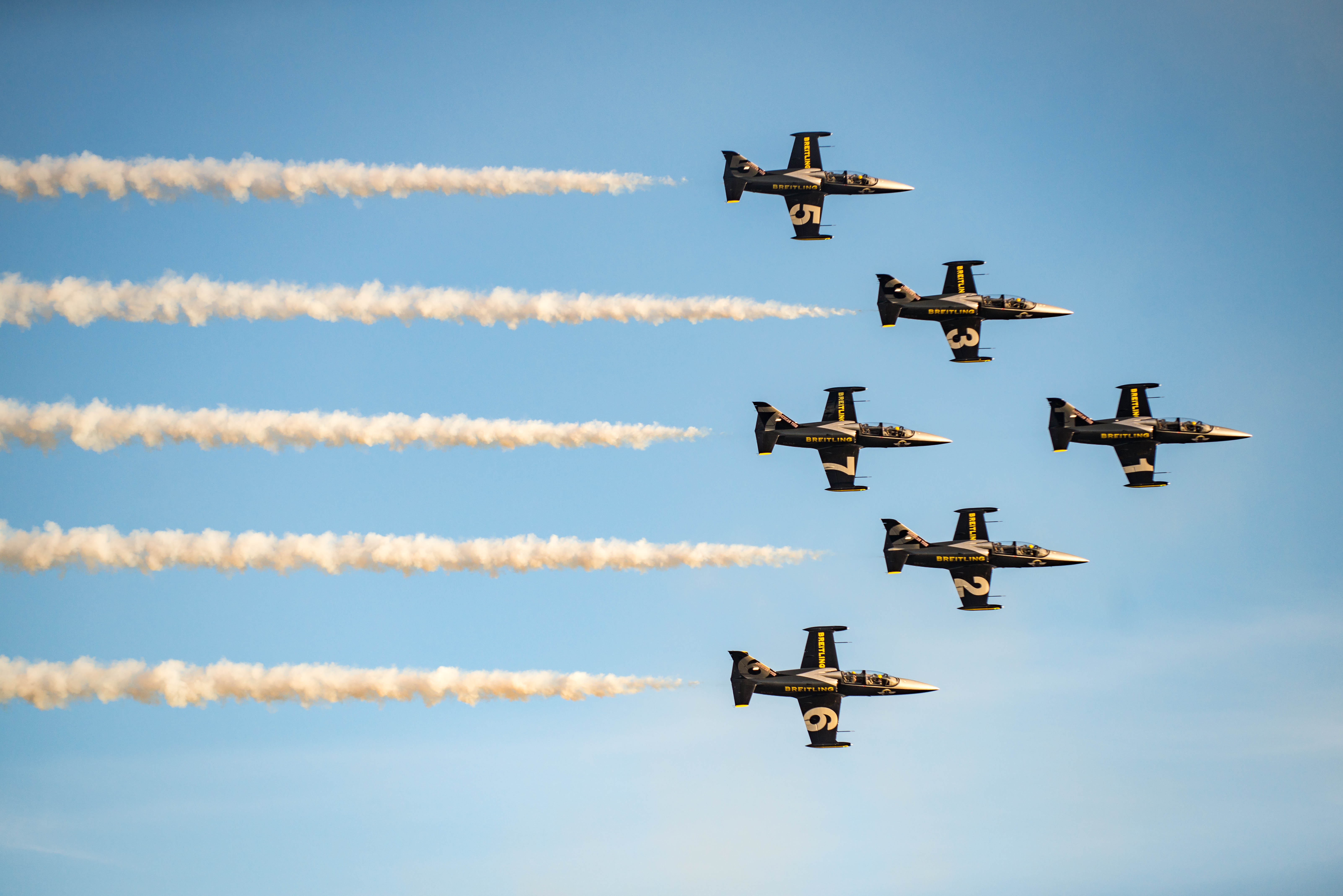 2016 Abbotsford International Airshow